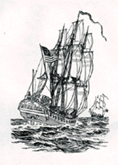 US privateers in the Revolutionary War. From the book A history of American privateers (1900) by Edgar Stanton Maclay.